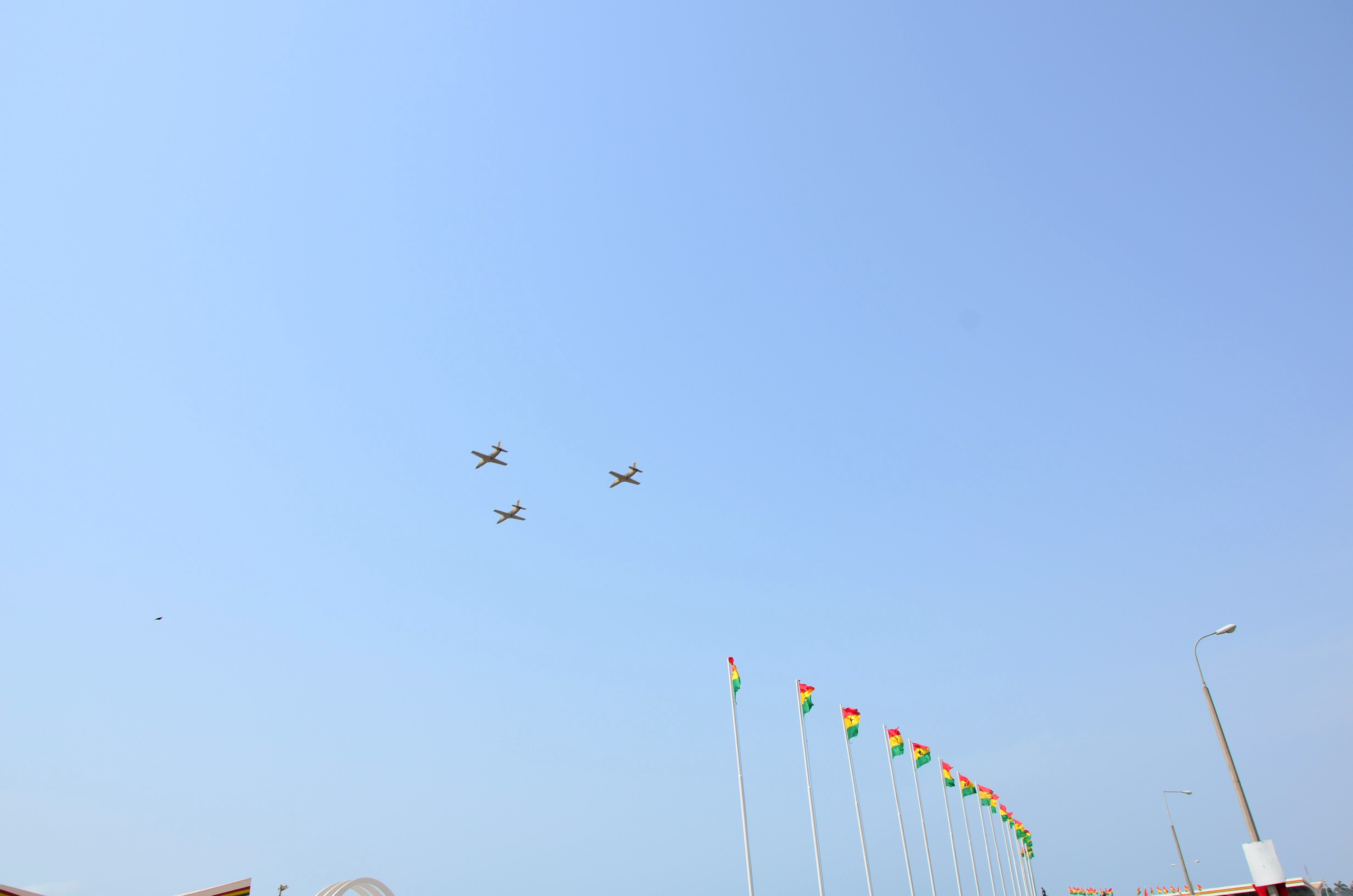 Pursuit planes of the Ghanaian Air Force of the type MIG over the Independence Square in Osu (Accra) during the main event to Ghana's 54th independence anniversary on the 6th of March, 2011.